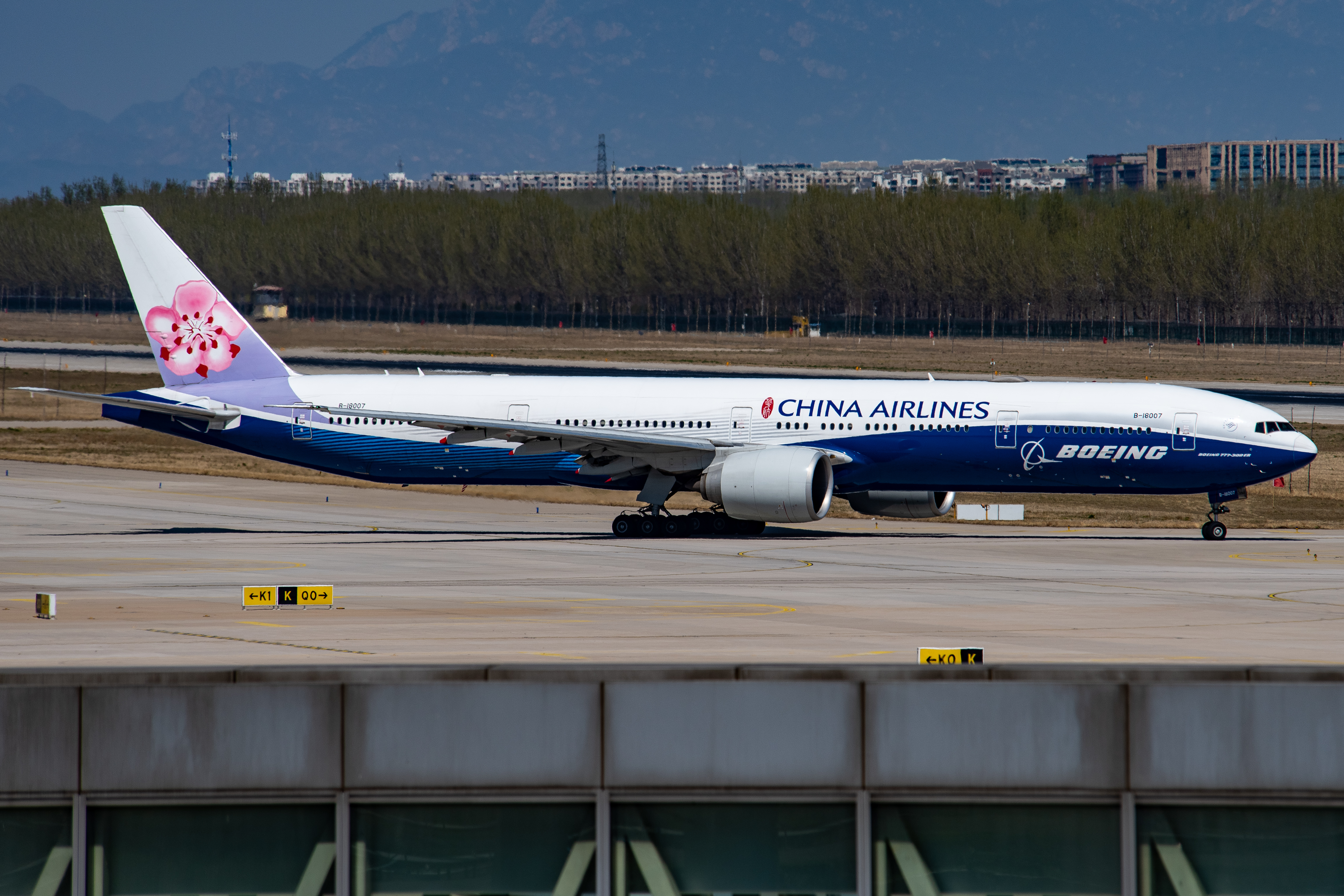 Dynasty 512 to Taipei. Due to the temporary closure of 36R, it took off from 01.